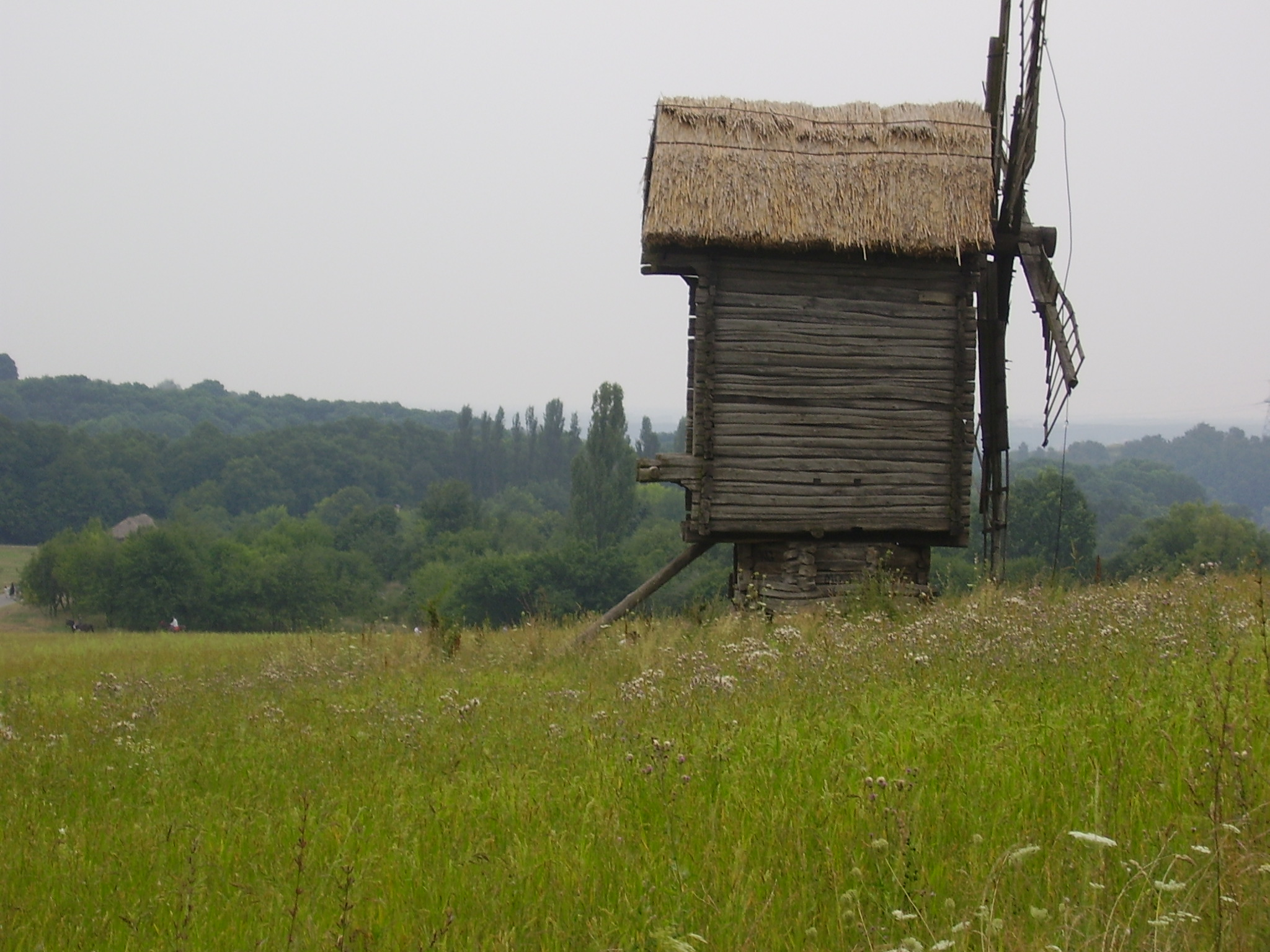 Mill at ethnographic museum in suburbs of Kiev